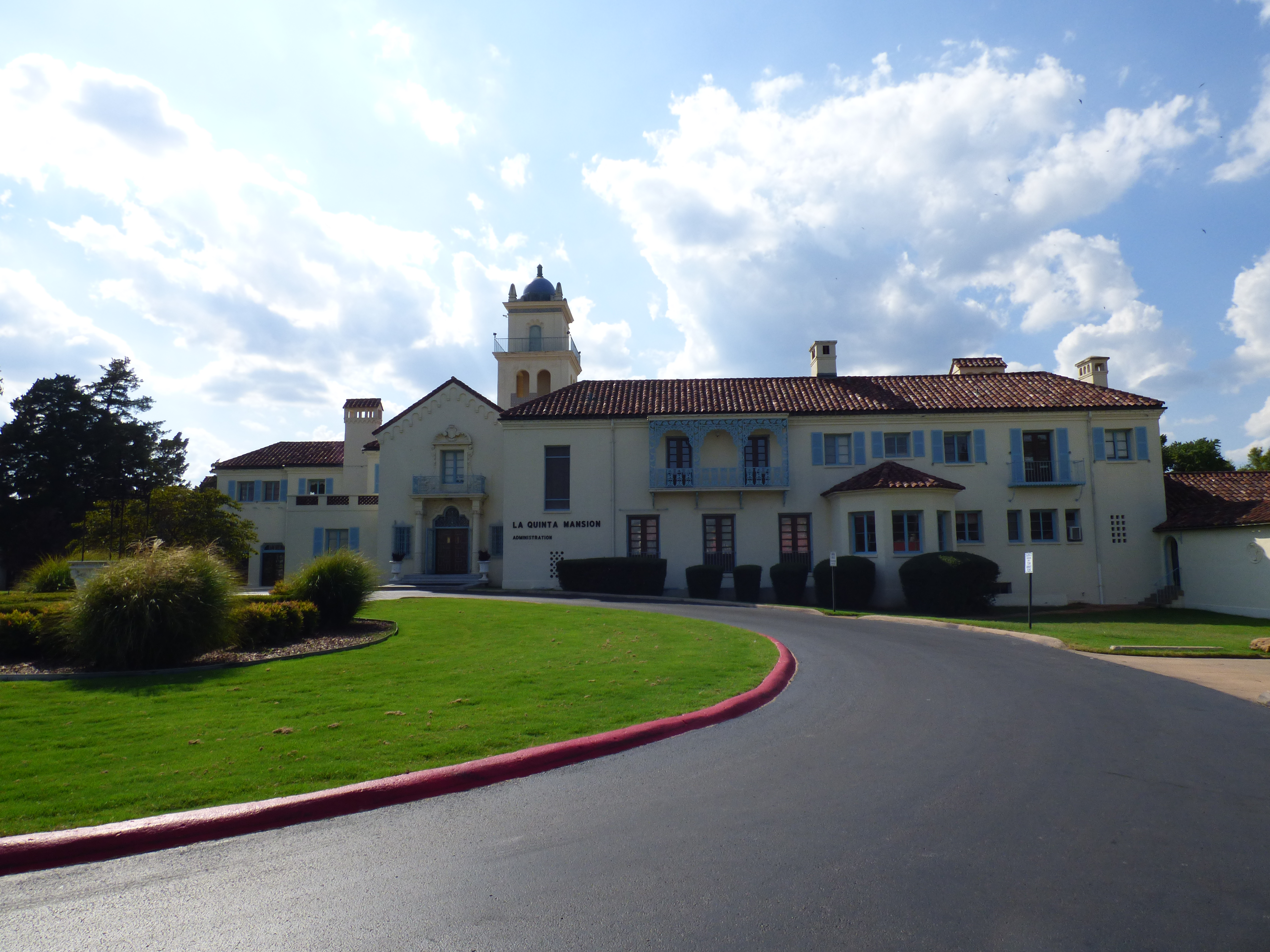 Designed in 1930 by Edward Buehler Delk a Kansas City architect for H.V. Foster a Bartlesville oilman, set on 152 acres a Spanish style Mansion with 32 rooms, 14 bathrooms and 7 fire places. It now is owned by Wesleyan Church which owns Oklahoma Wesleyan University.